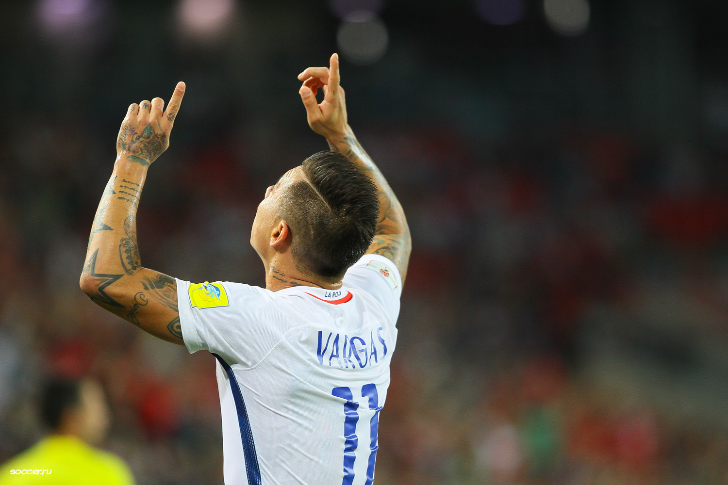 Cameroon vs Chile (0-2). FIFA Confederations Cup 2017